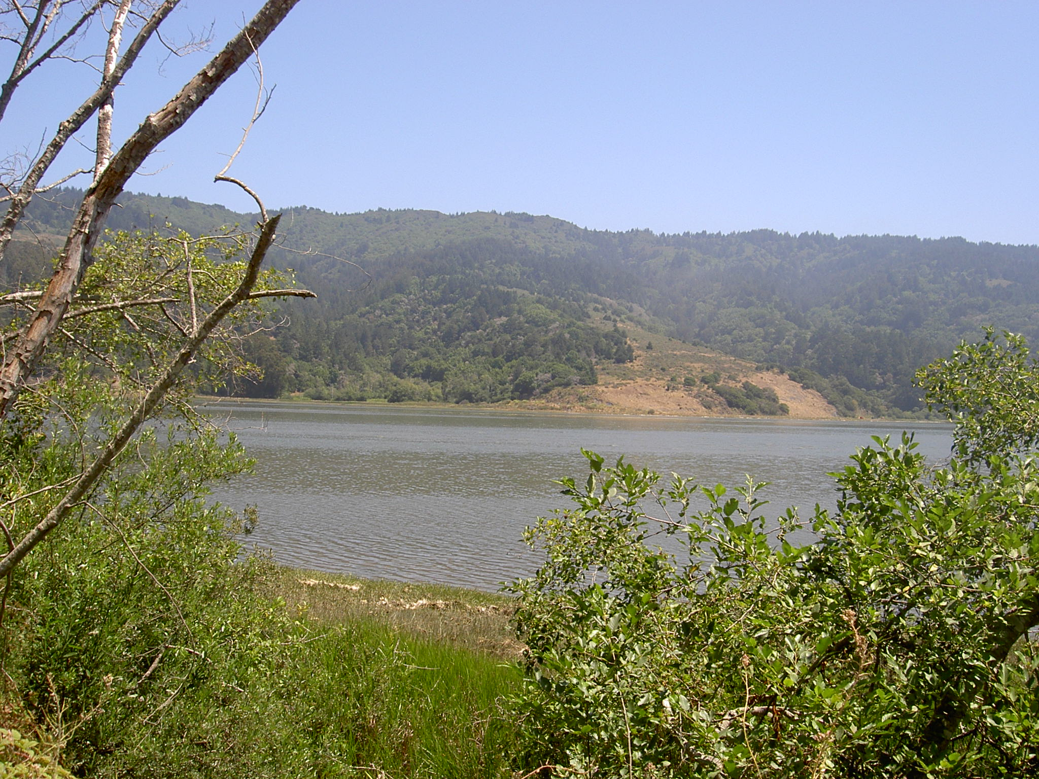 West side of Bolinas Ridge in Marin County, Golden Gate National Recreation Area, California, viewed from across the Bolinas Lagoon. Photo was taken from Olema-Bolinas Road.